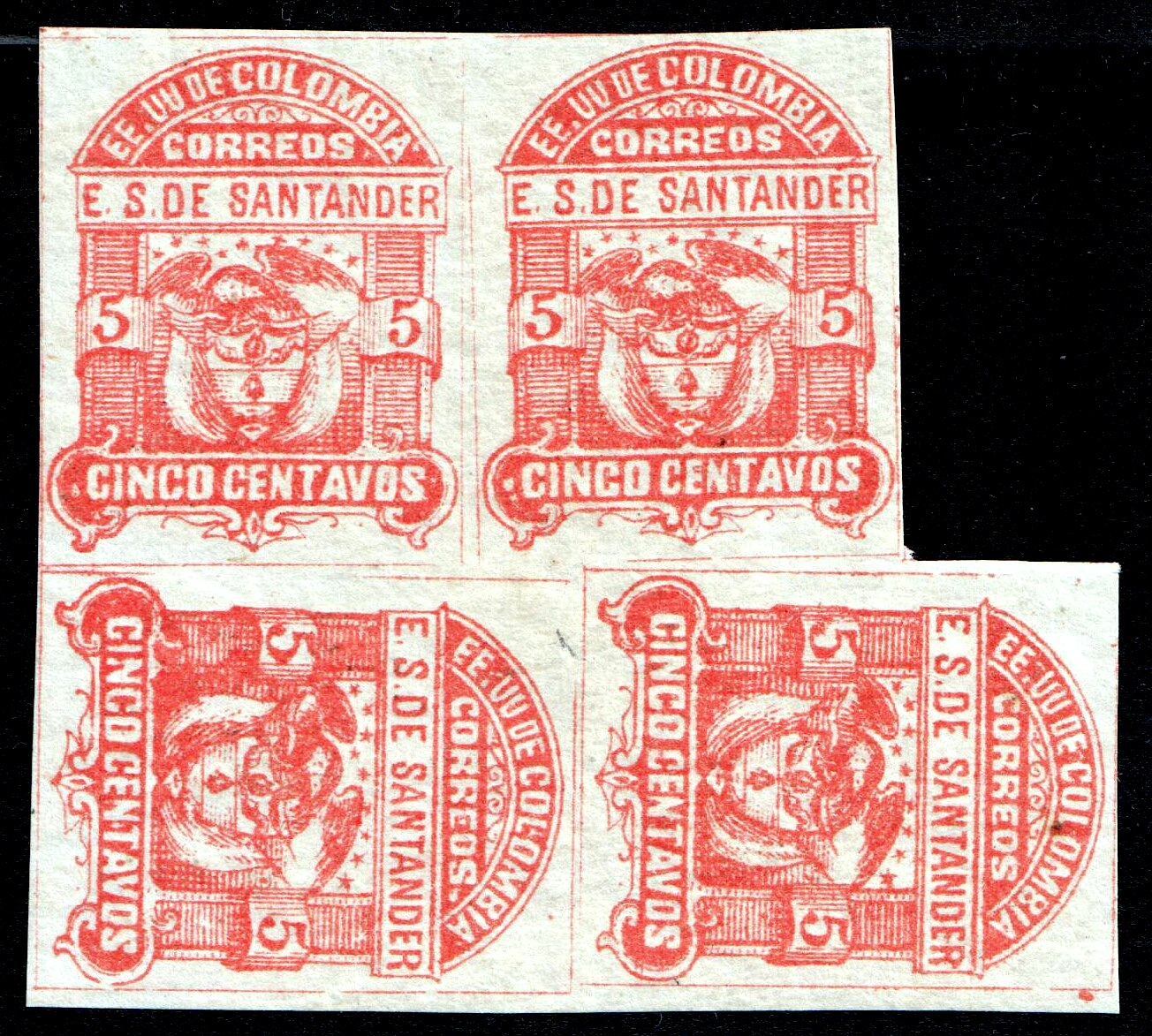 Colombian state of Santander 1886, 5 centavos red, mint block of four, Juxta position - bottom row printed sideways. Catalogue: Sc. 5, Yv. 5